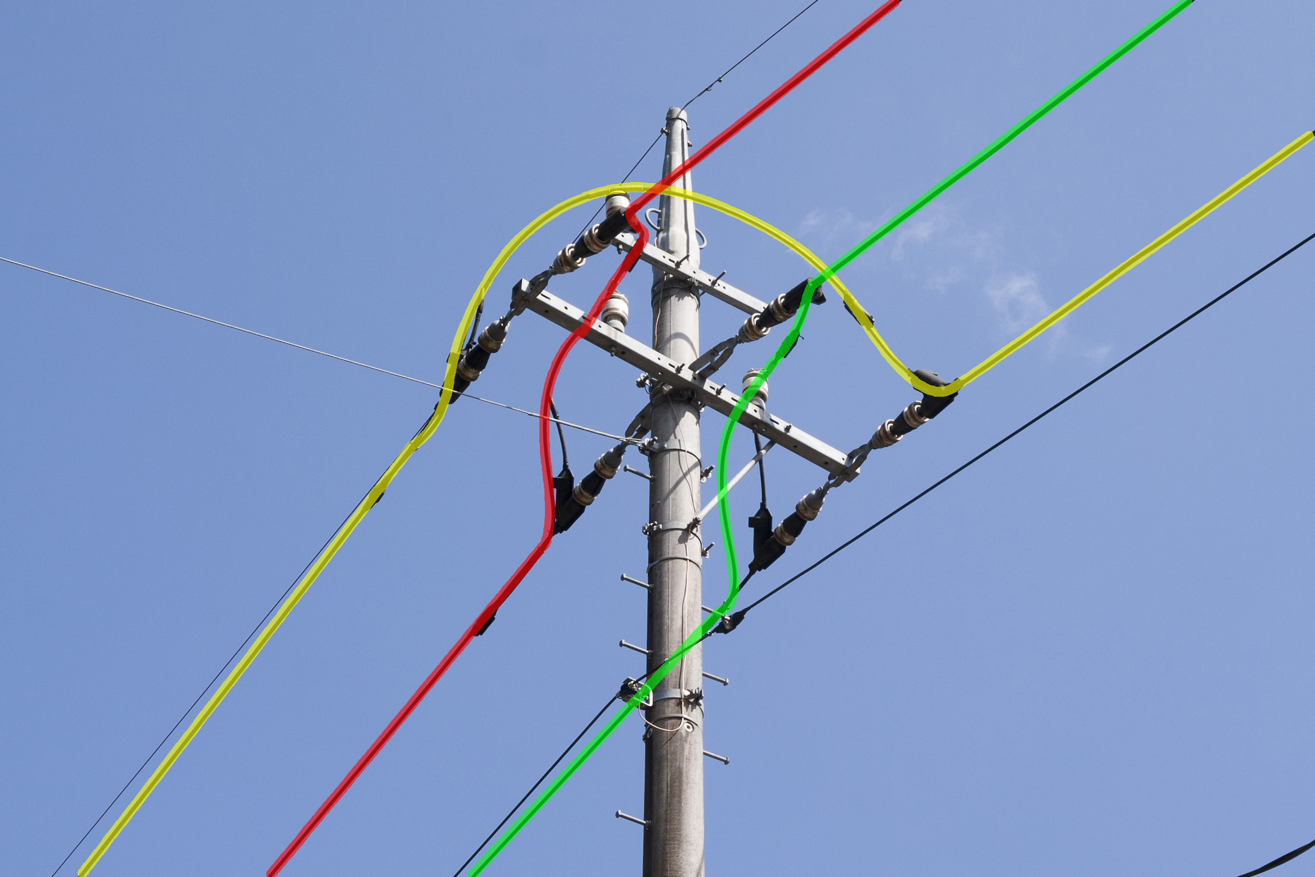 6.6 kV power transmission line in Takahagi City, Ibaraki Pref., Japan